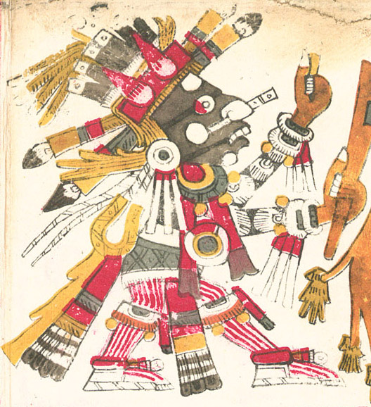 A drawing of Tlahuizcalpantecuhtli, one of the deities described in the Codex Borgia